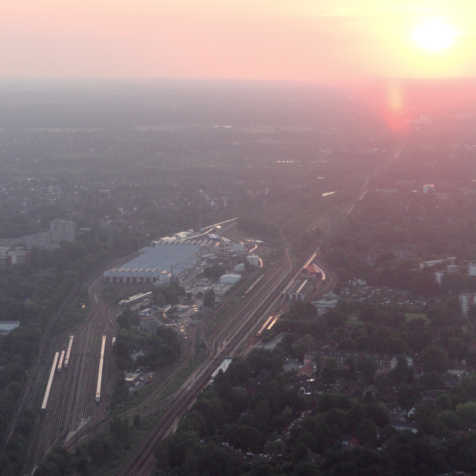 Aerial view of the depot of the German "ICE" high speed train fleet, seen from an aircraft approaching Hamburg Airport in June, 2016. The depot is located in Hamburg-Eidelstedt.